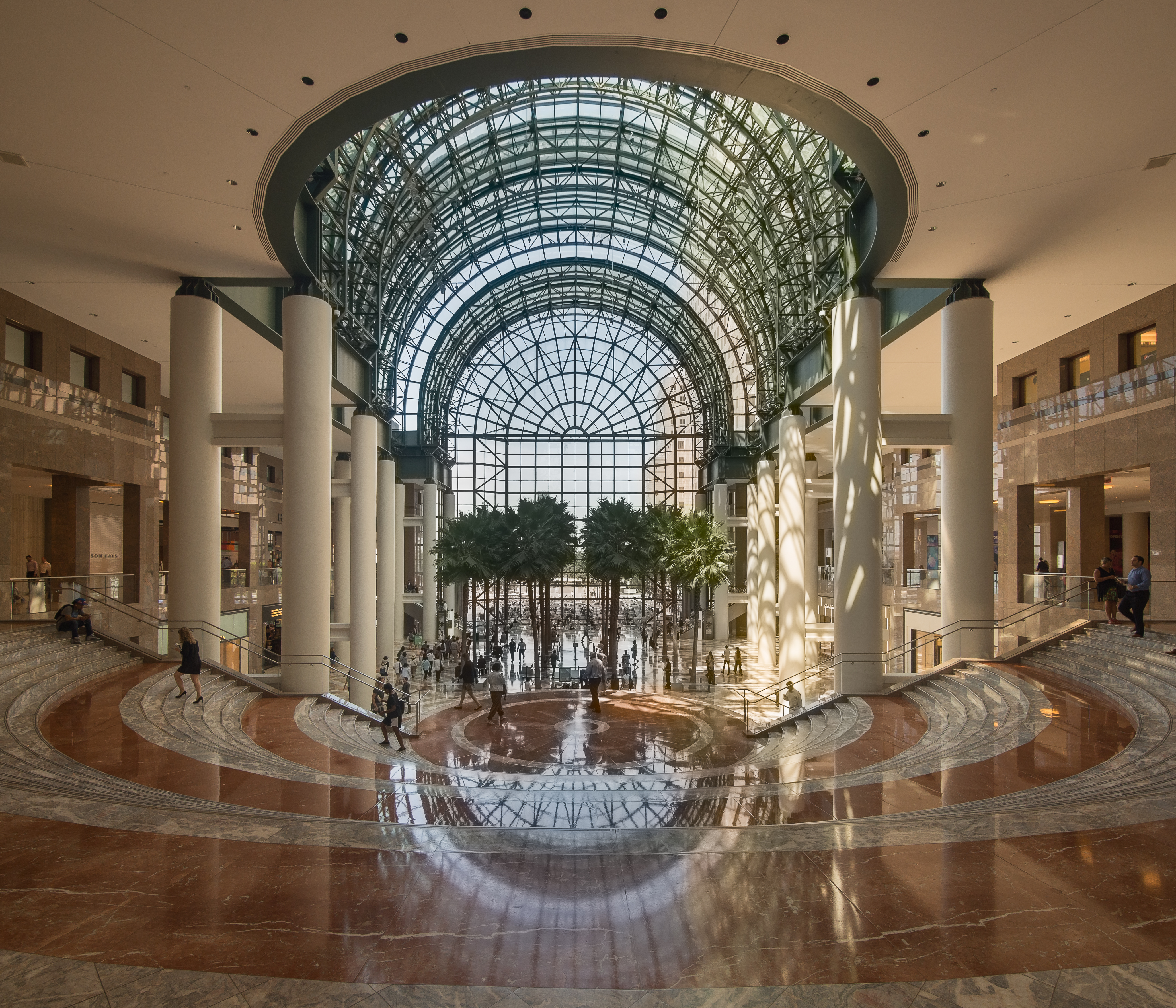 Winter Garden Atrium pavilion on Vesey Street in New York City's Brookfield Place office complex.